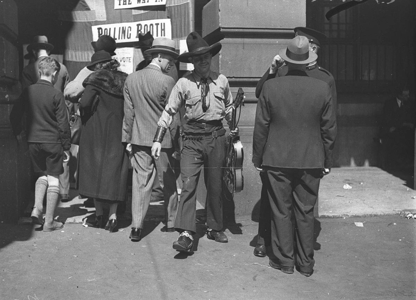 Polling booth queue with Tex Morton in full cowboy rig and guitar, Sydney Town Hall.